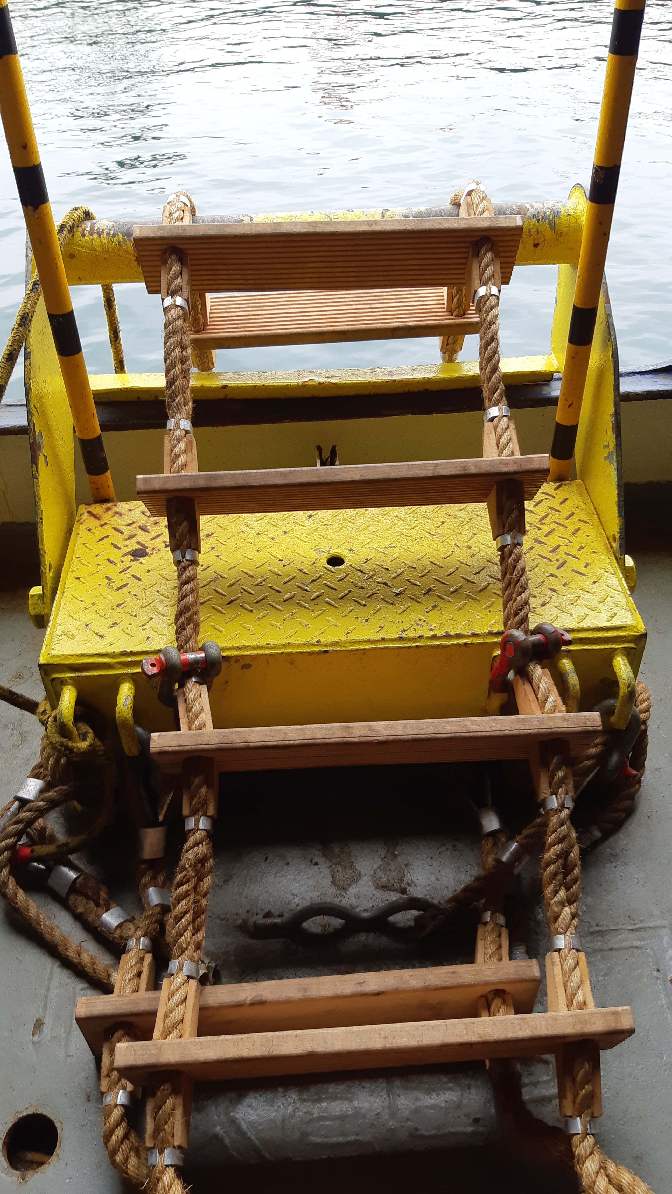 Pilot ladder arrangement on RORO vessel. Fixed with shackles.